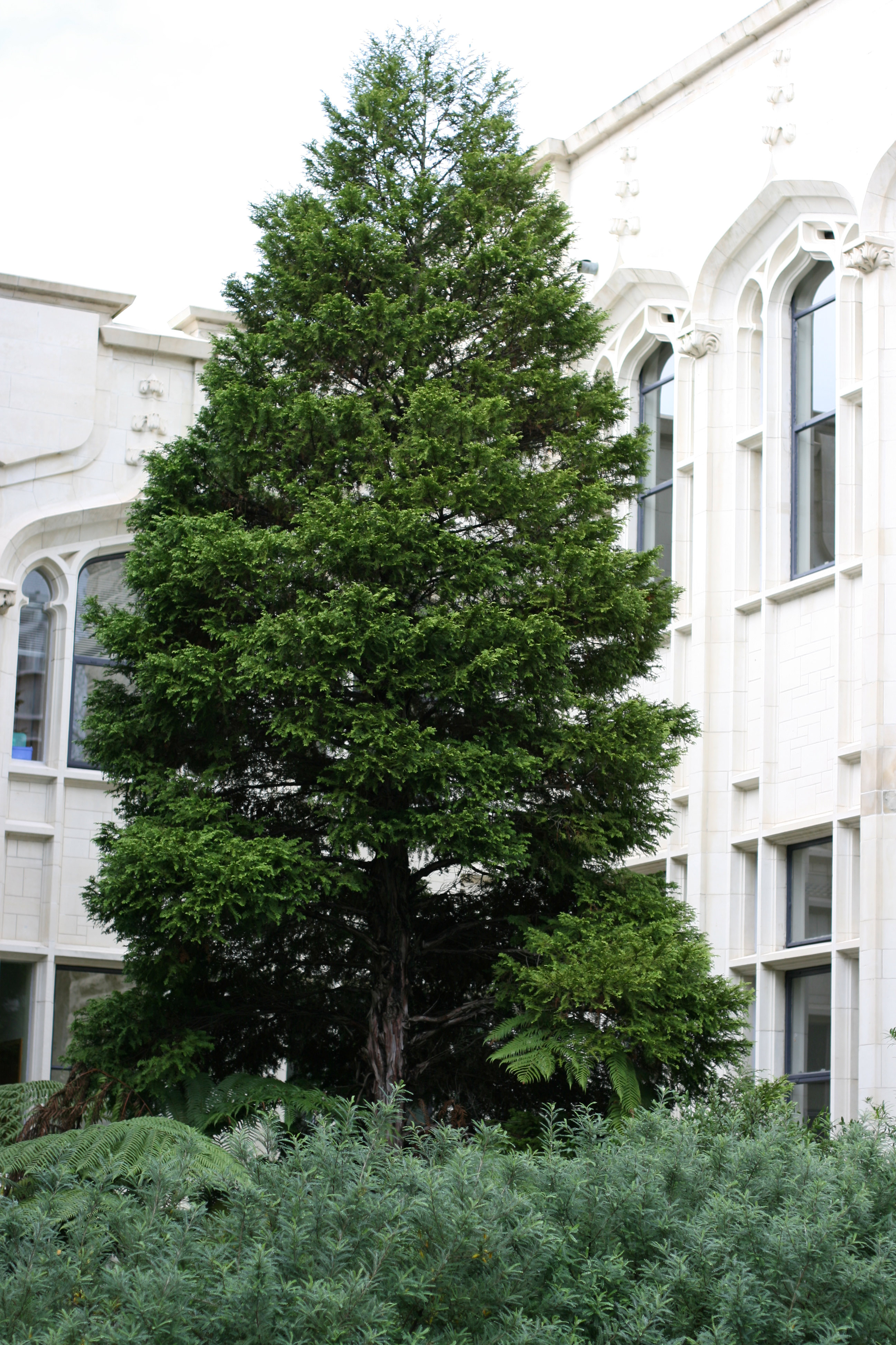 Libocedrus plumosa. A young tree growing on the campus of the University of Auckland, Auckland, New Zealand.